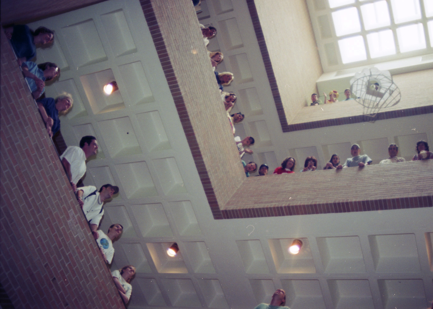 University of Texas at Arlington students participate in egg-drop contest.